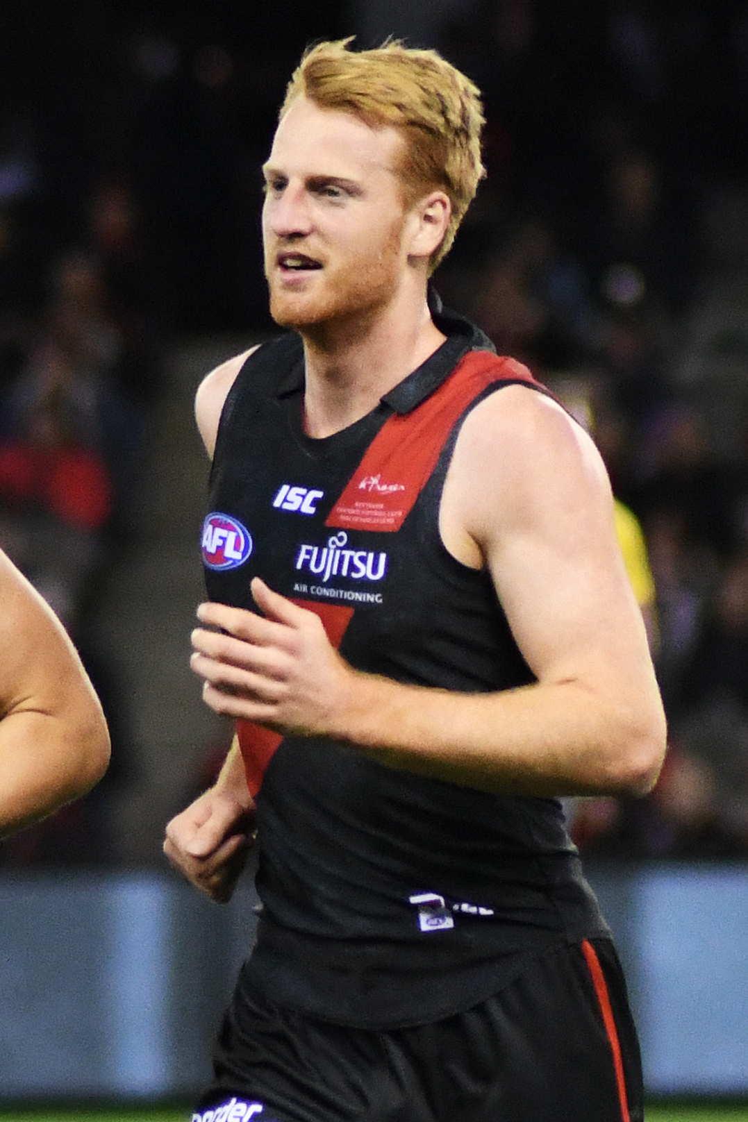 Aaron Francis of Essendon during the 2018 AFL round 21 match between Essendon and St Kilda at Etihad Stadium on Friday, 10 August 2018 in Melbourne, Victoria.